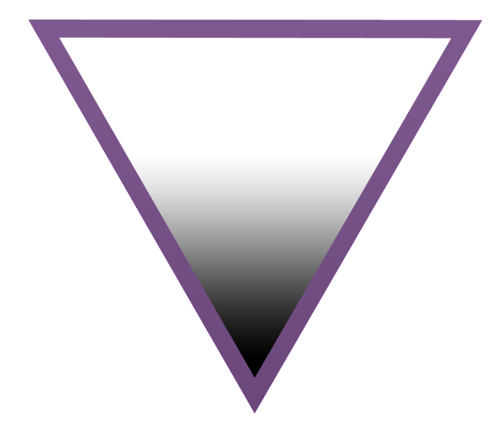 An asexual symbol that originates from the AVEN community (Asexual Visibility and Education Network)